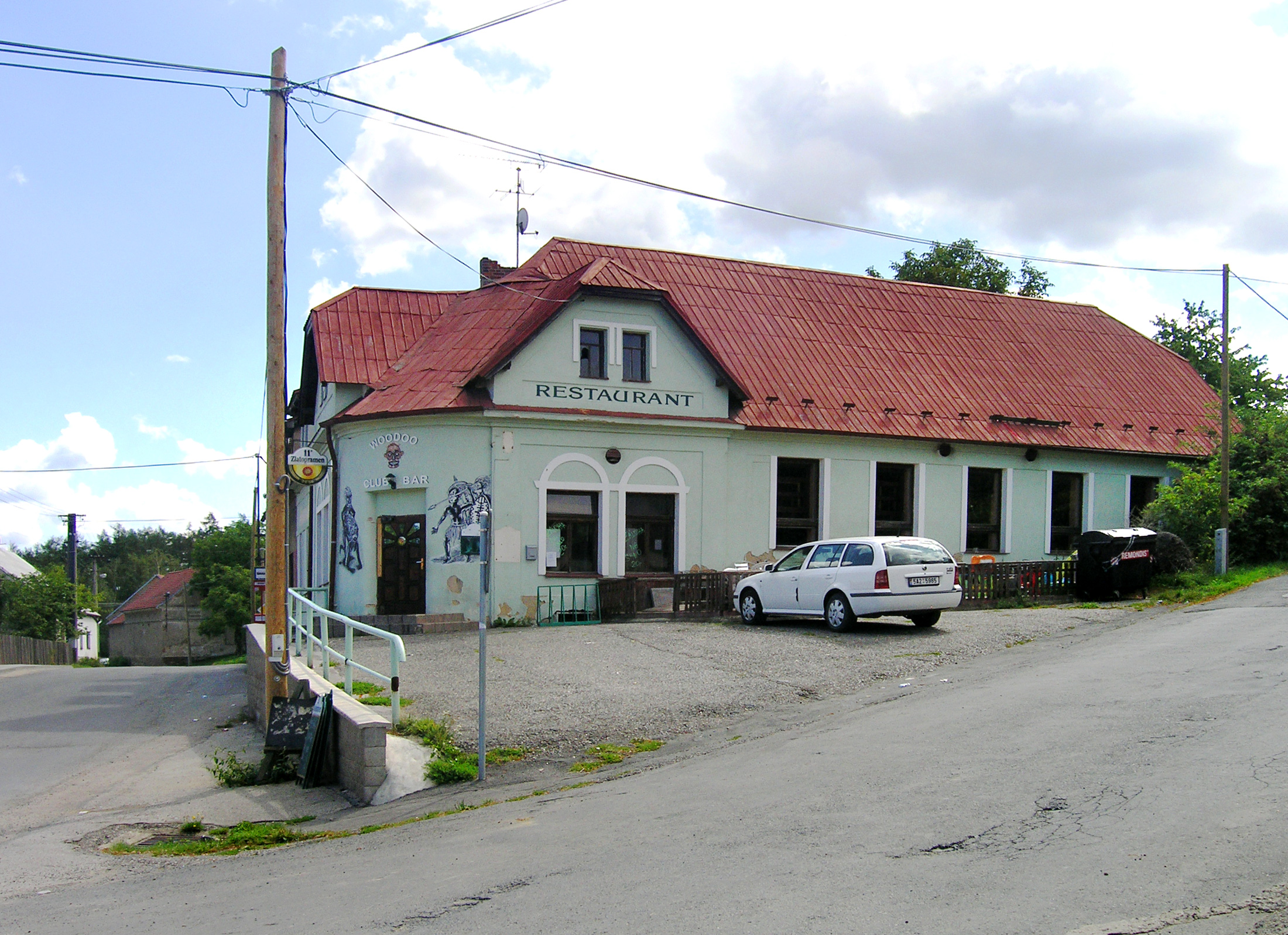 Pub in Okrouhlo, Czech Republic